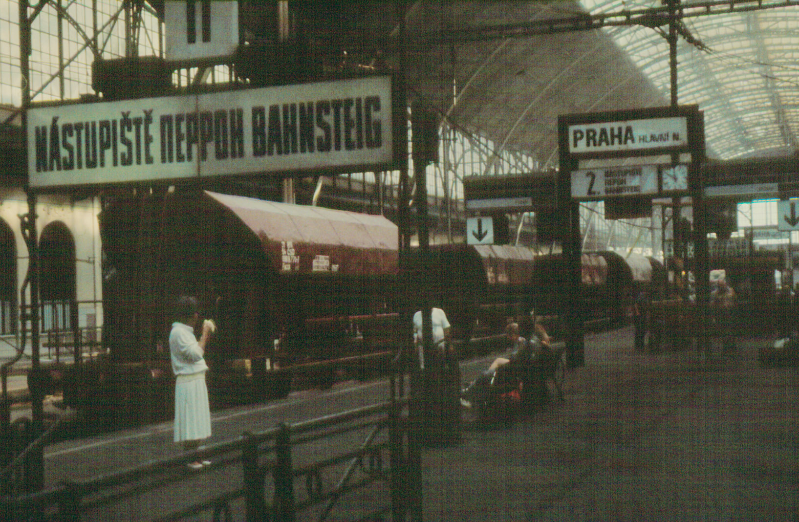 Good train at Prague main station